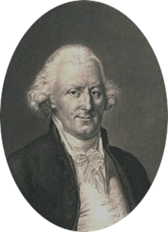 Portrait of Jean-Baptiste Michonis, by Allais Louis Jean.